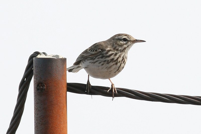 Corre-Caminhos - Anthus bertheloti madeirensis